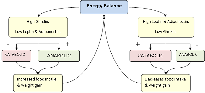 Hormonal energy balance